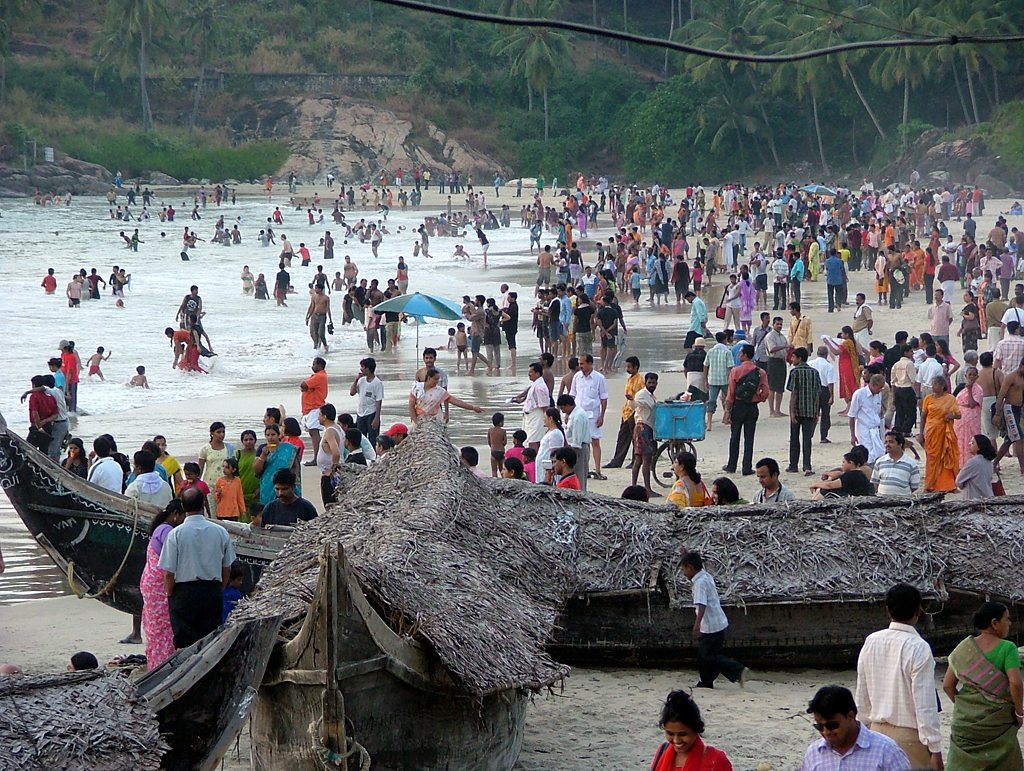 Hawah beach at Kovalam in Thiruvananthapuram, Kerala, India. As on Flickr:At sunset the beaches became over crowded with people. The came in large numbers to witness the sunset spectacle.